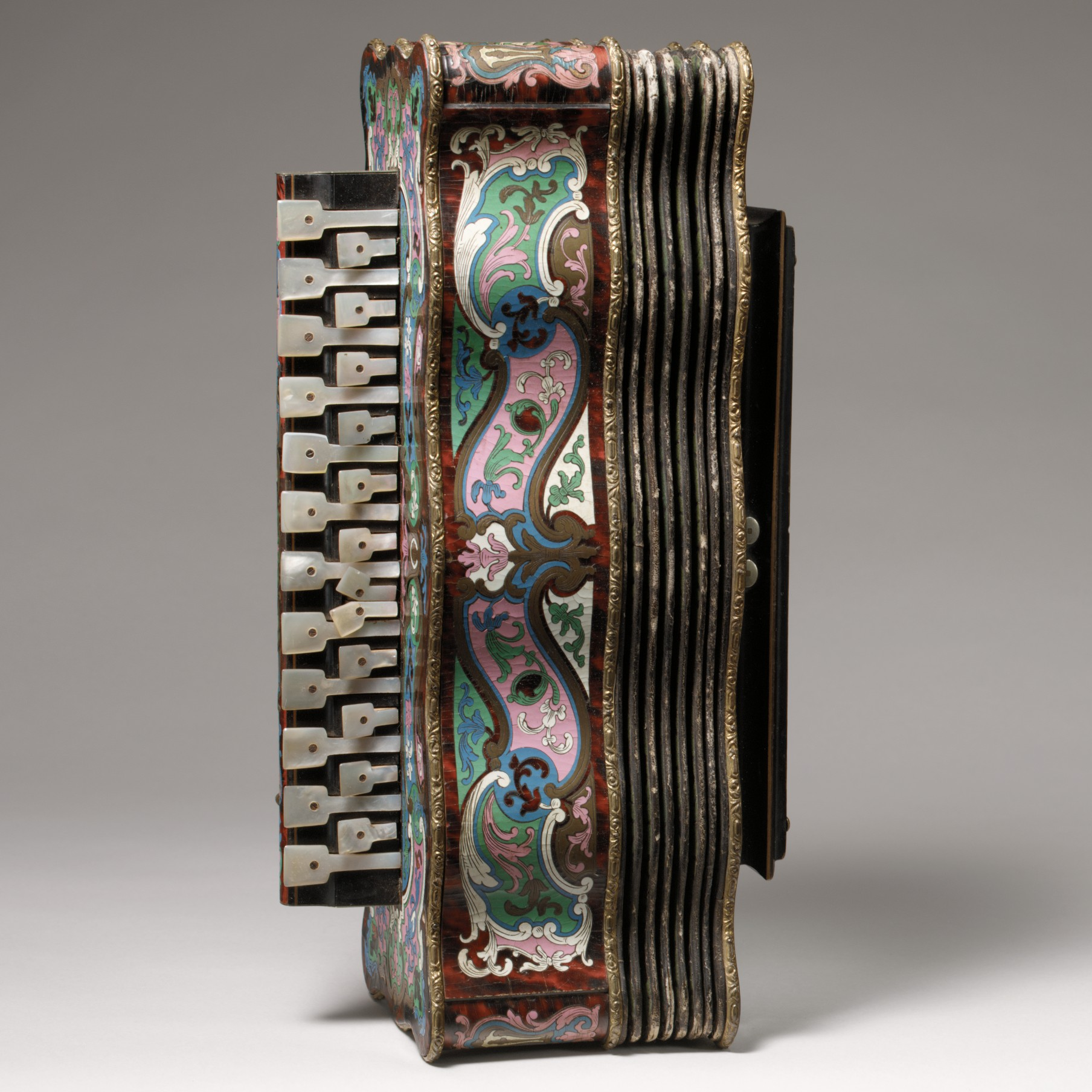 French; Accordion; Aerophone-Free Reed-concertina / accordion